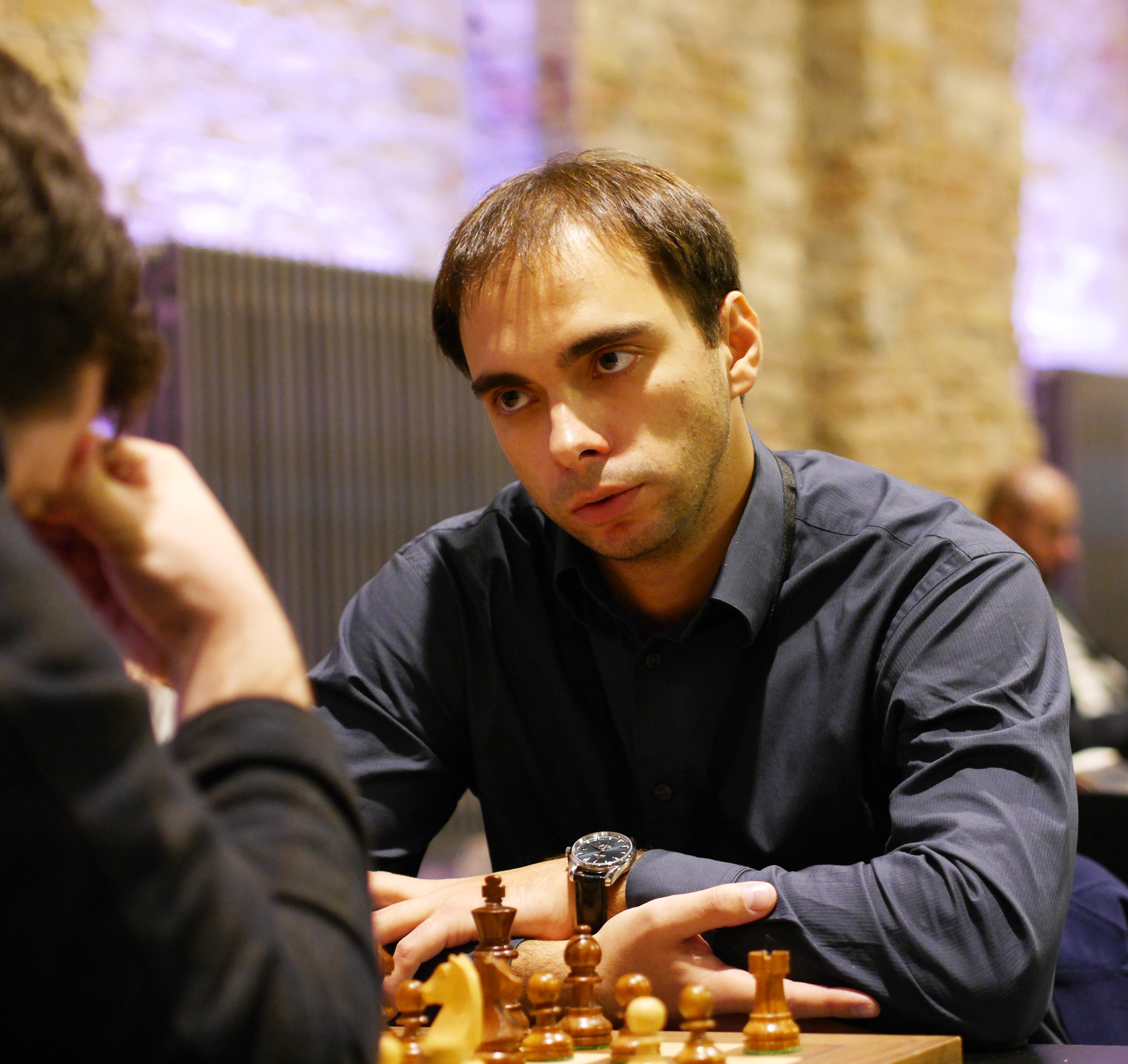 Alexander Riazantsev at the FIDE World Rapid Chess Championship 2015 in Berlin